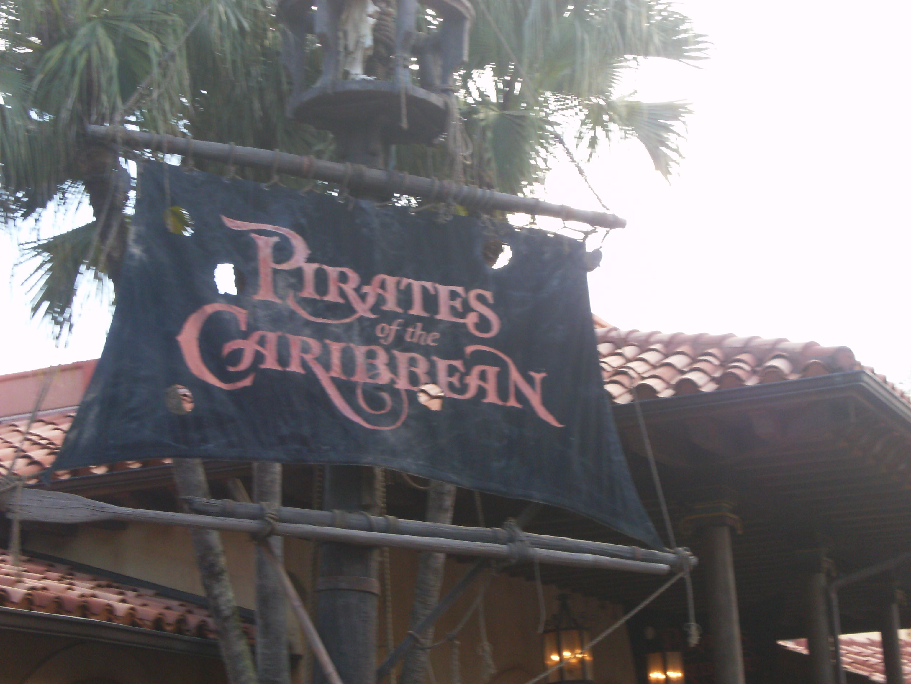 Picture of the entrance to Pirates of the Caribbean, at Magic Kingdom